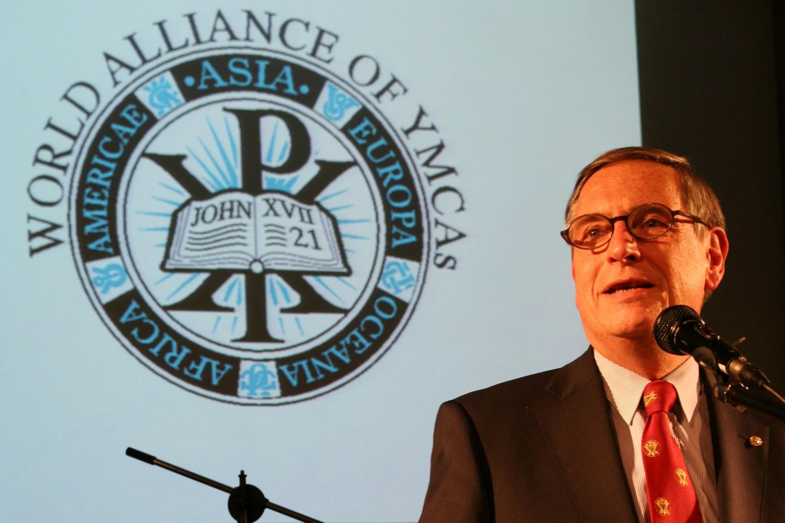 Martin Meißner (* 1953) is the president of the World Alliance of YMCA since 2006.